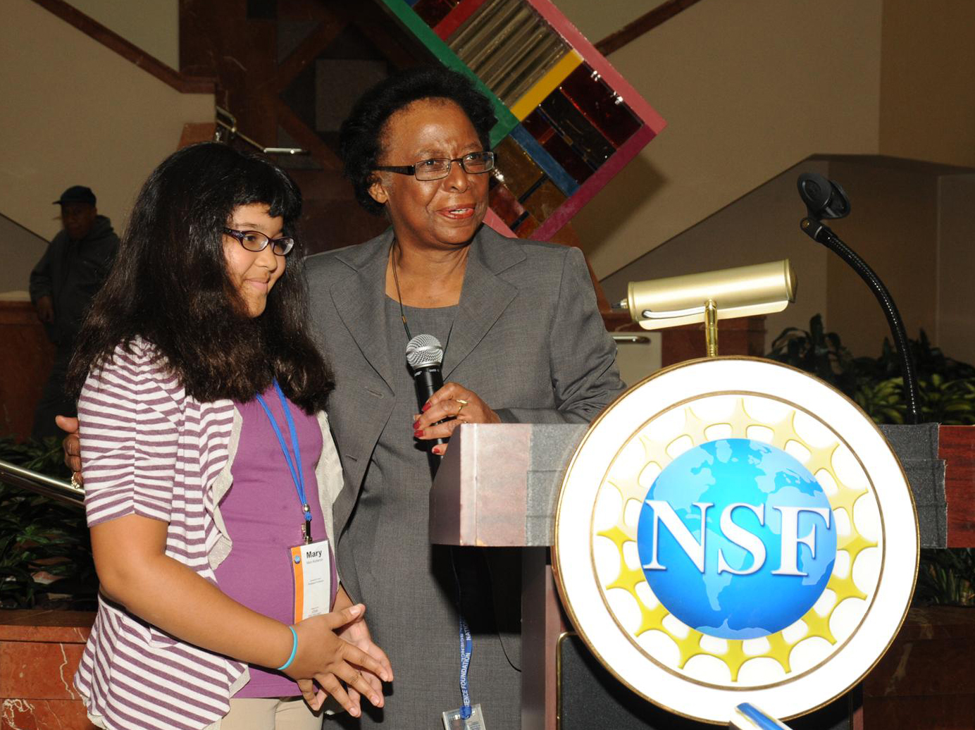 NSF welcomed nearly 100 young people to its Arlington, Va., headquarters on April 26, 2012, for "Take Our Daughters and Sons to Work" Day. NSF Deputy Director Cora Marrett recruited one young guest to help deliver the welcoming remarks. The day's activities included presentations about NSF and about earthquakes, ocean drilling and the social sciences; guided tours of the agency; and hands-on experiments. The participants learned not only about careers at NSF but also about some of the "cool" science and engineering research and education activities supported by the foundation. Credit: Peter Cutts for NSF Visit NSF’s Multimedia Gallery, at for more images, and for video.